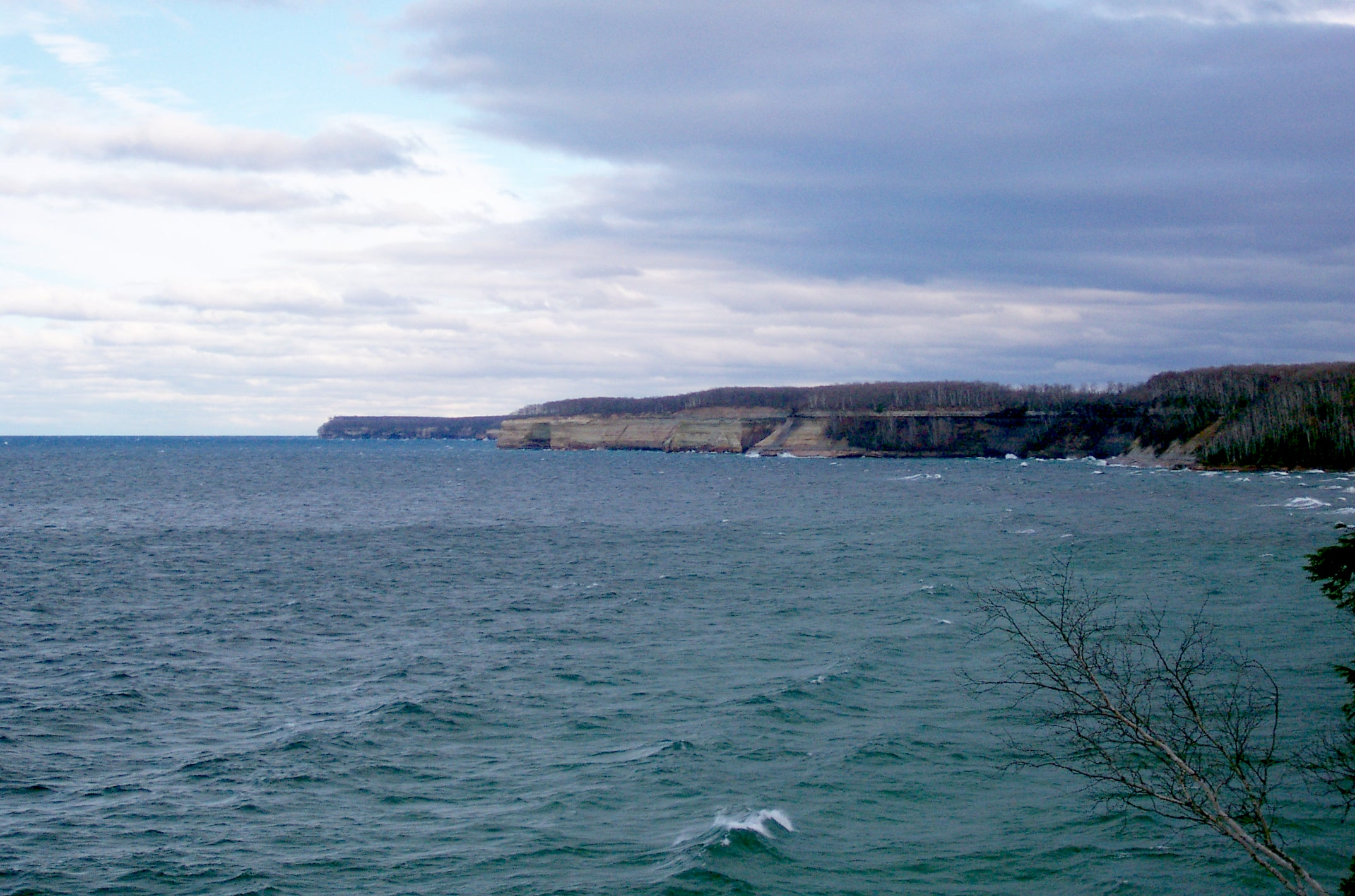 View of the Pictured Rocks National Lakeshore, Michigan